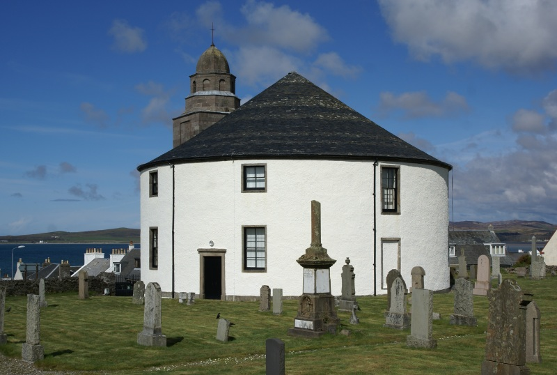 Kilarrow Parish Church, Bowmore, Islay, Scotland.